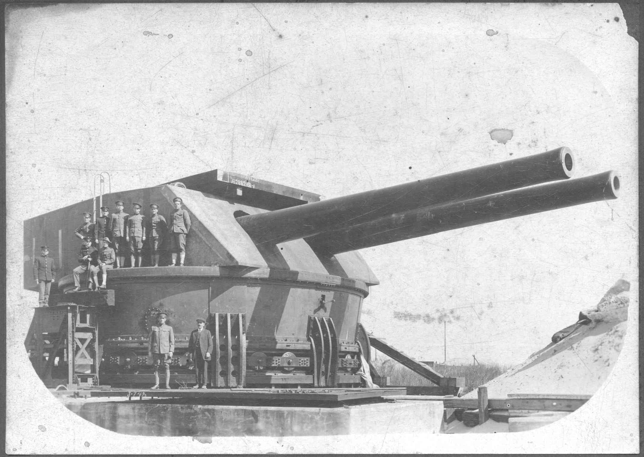 14-inch turret for Fort Drum (El Fraile Island, Philippines) undergoing tests at the Sandy Hook Proving Ground. The turret has two M1909 14-inch guns, developed solely for Fort Drum.